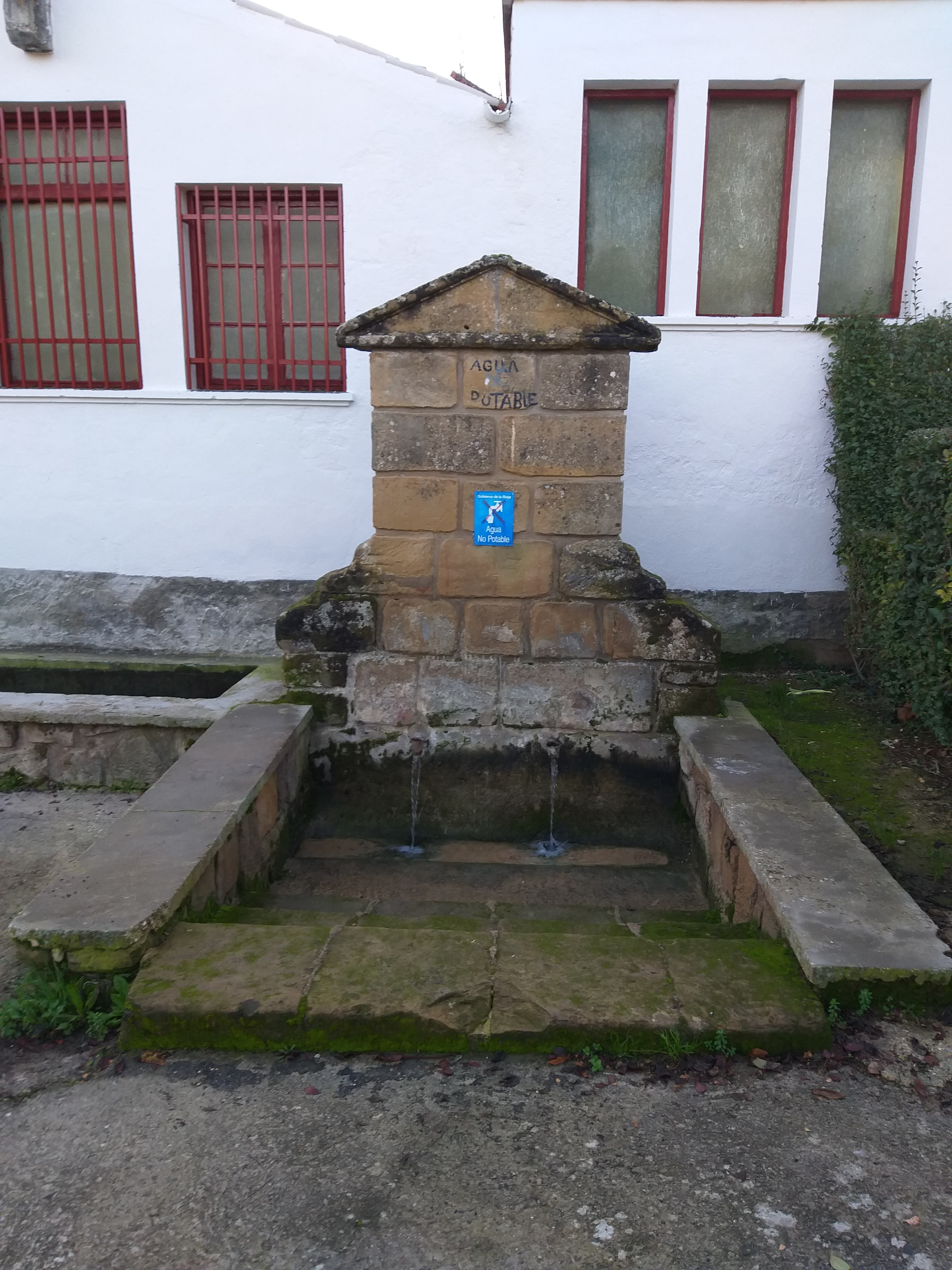 The King's Fountain in Rodezno